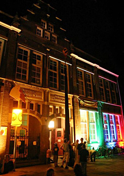 Exteriour social-cultural society eureka, Netherlands